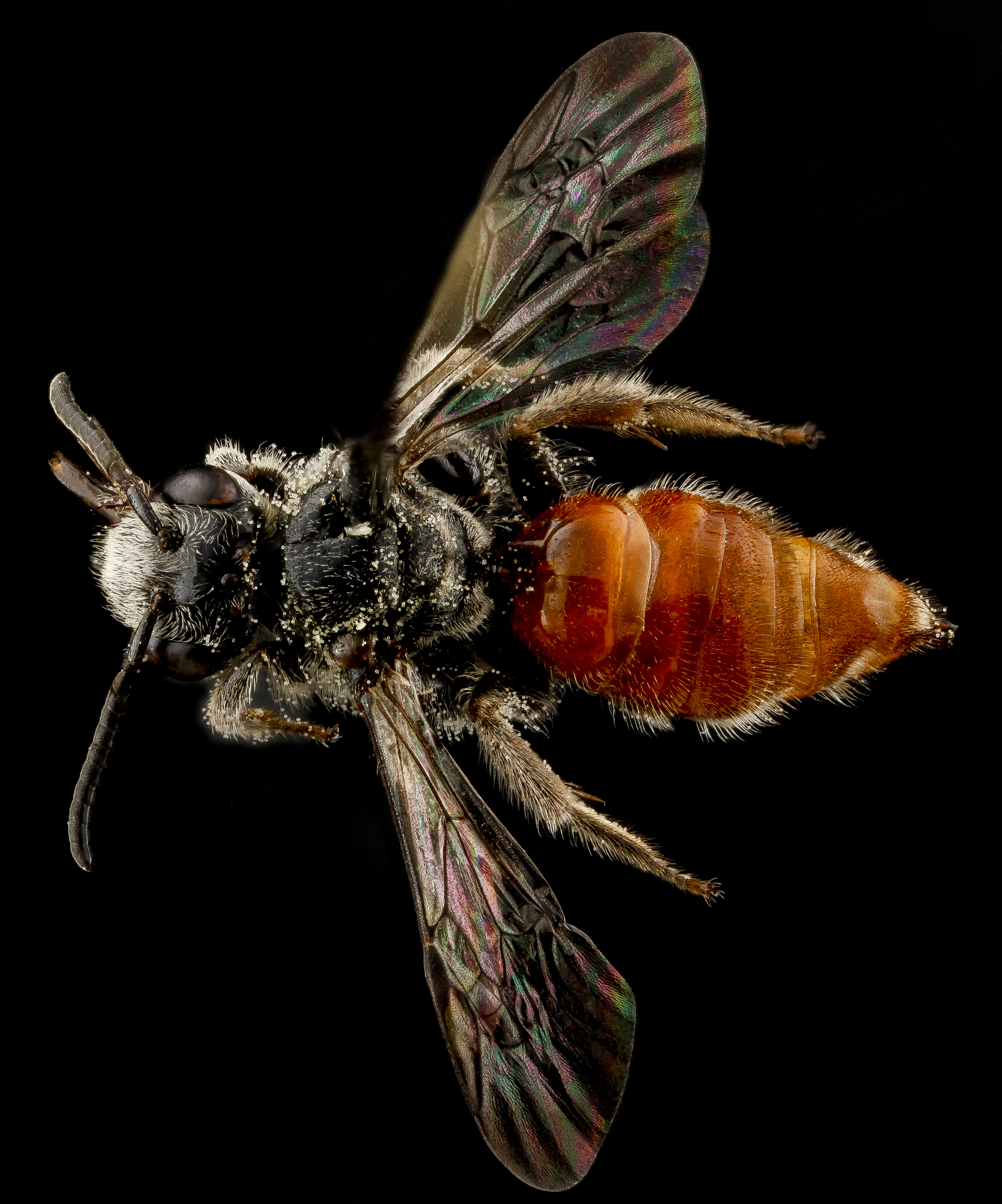 Brachynomada grindeliae, F, back, South Dakota, Jackson County_2012-11-27-15.53.57 ZS PMax